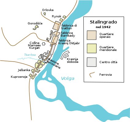 Map of Stalingrad in 1942